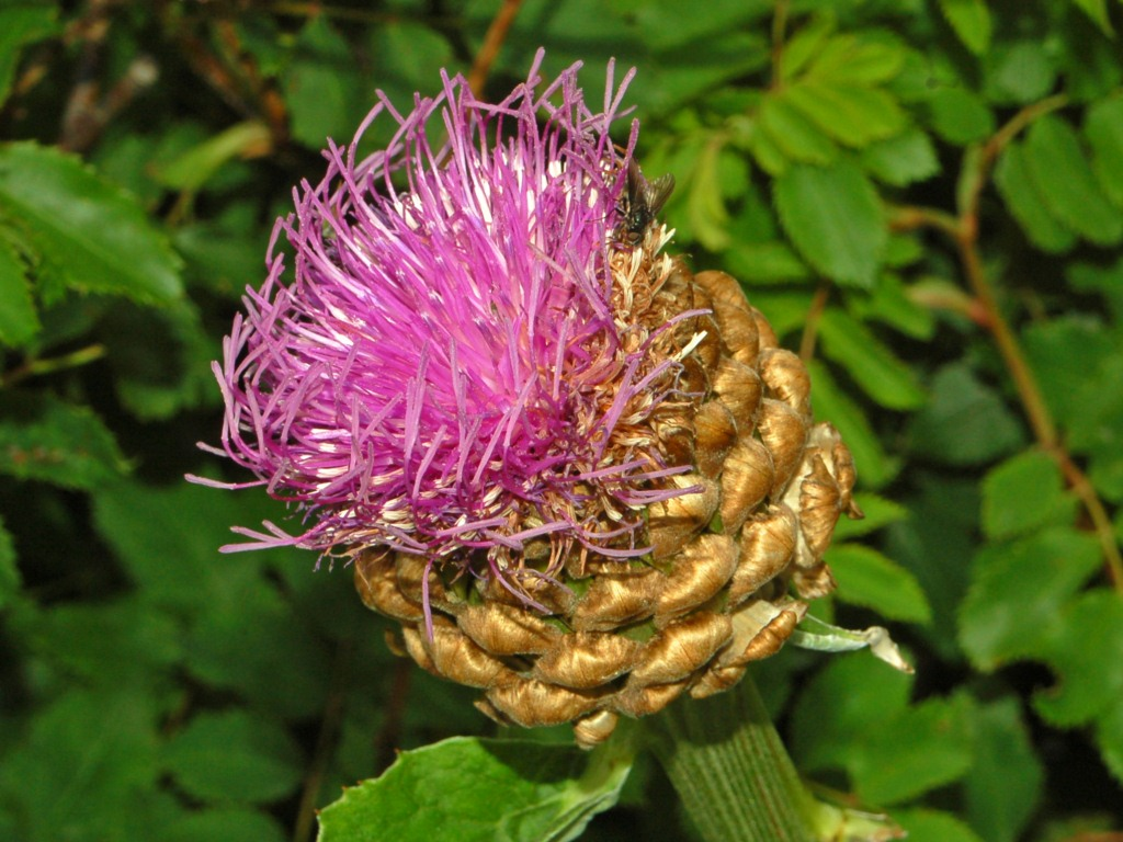 Rhaponticum scariosum - Col du Lautaret, France